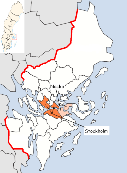 Nacka Municipality in Stockholm County Designed by me. Mere outlines are a PD source from